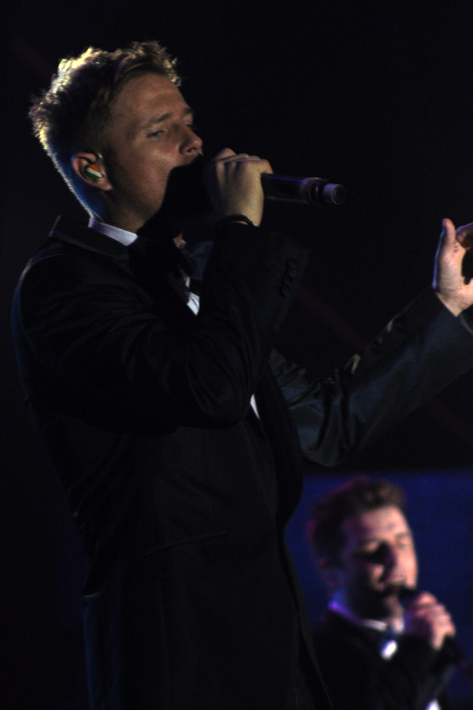 Nicky Byrne performing live on Gravity Tour in October 2011 in Hanoi, Vietnam